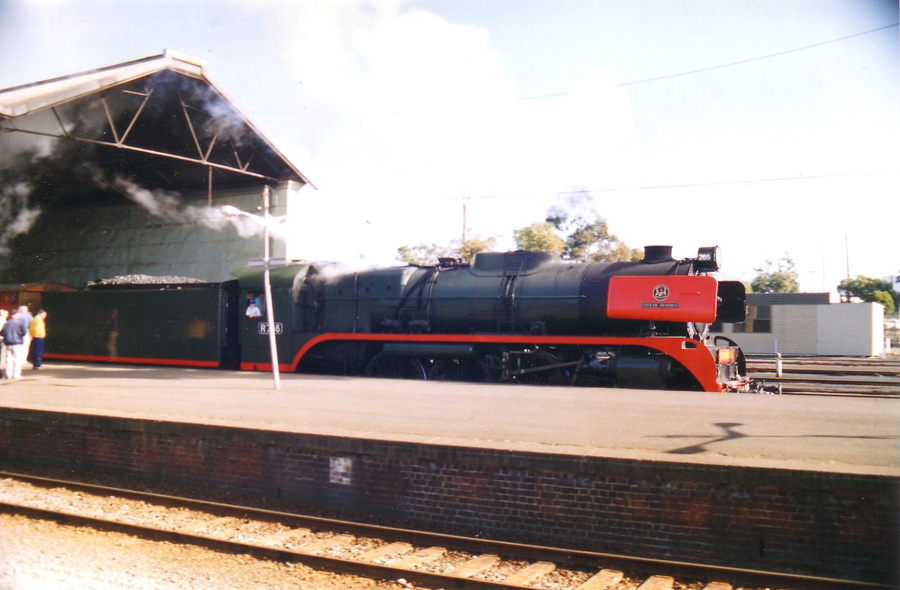 Victorian Railways R class locomotive R 766, hauling a regular V/Line interurban service to Spencer Street Station, awaits departure from Platform 3 at Geelong railway station, Victoria.